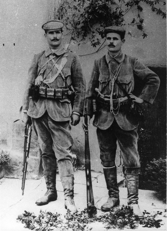 Hristos Karapanos (left) and Hristos Chocho